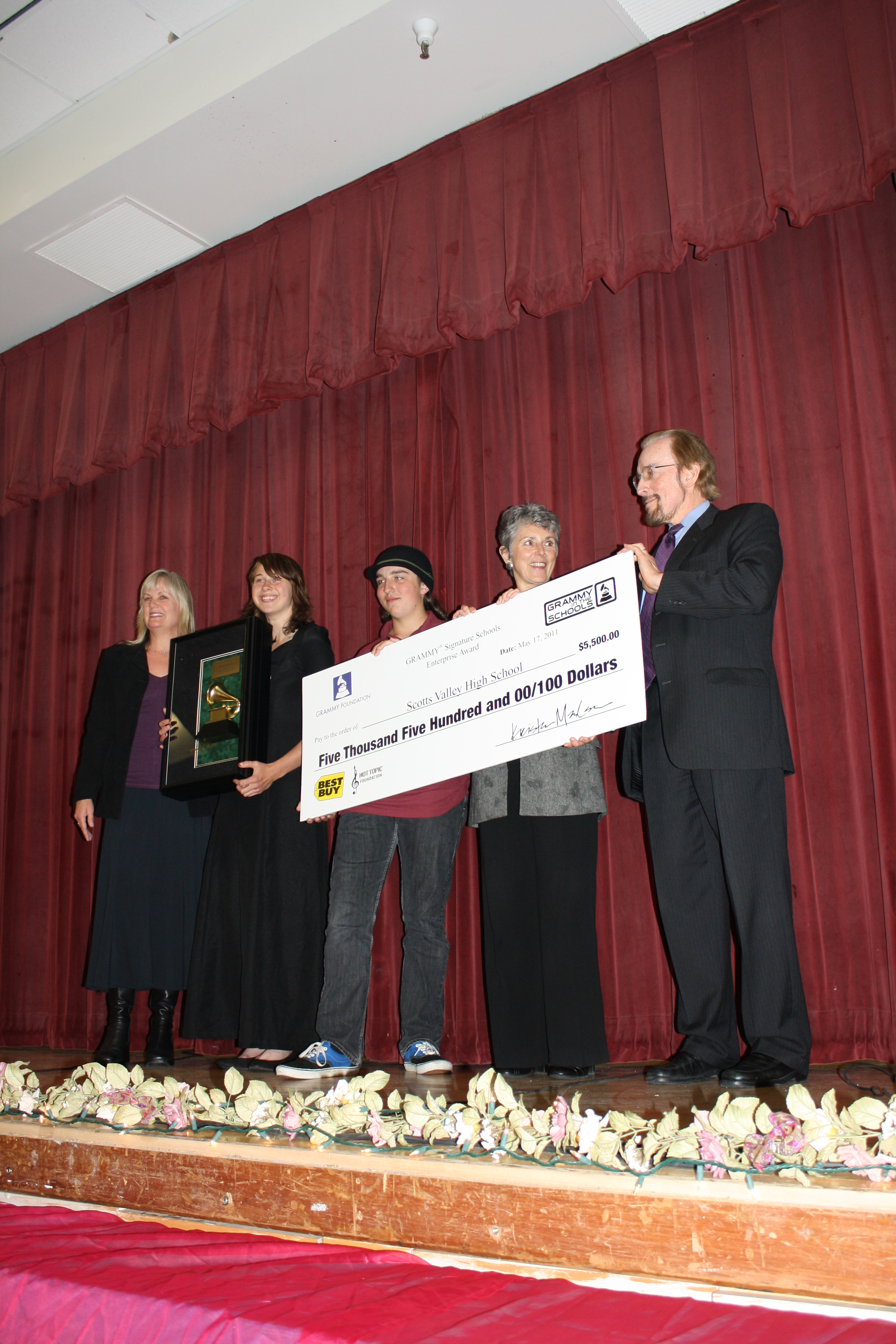 Scotts Valley High School GRAMMY Award ceremony on May 20, 2011